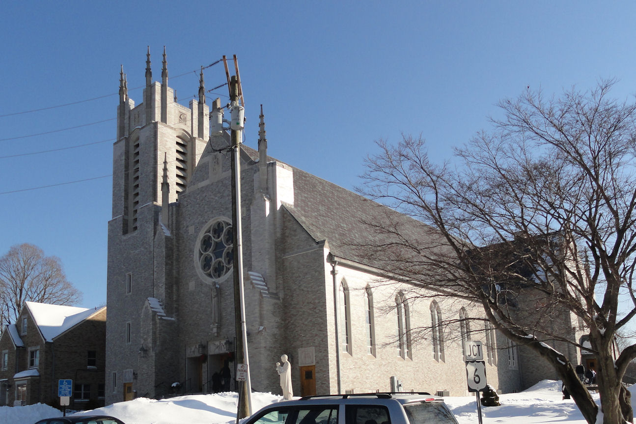 St. Stanislaus Church, Bristol CT after a snowstorm. January 3011